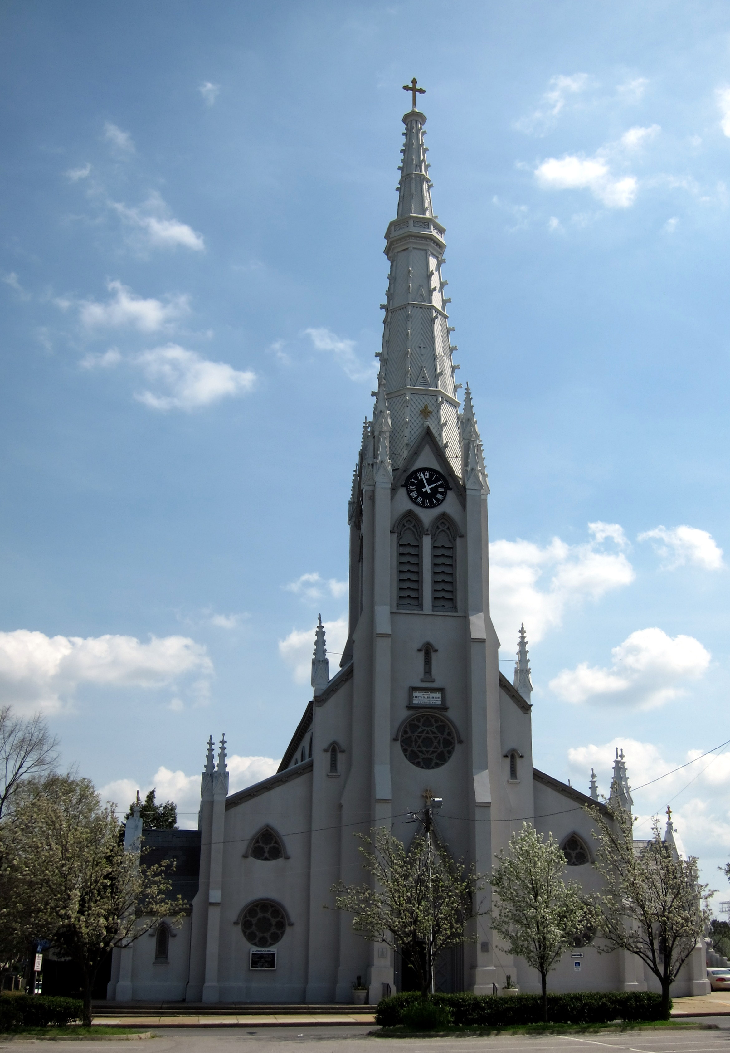 Basilica of Saint Mary of the Immaculate Conception (Norfolk, Virginia), exterior, front, spring